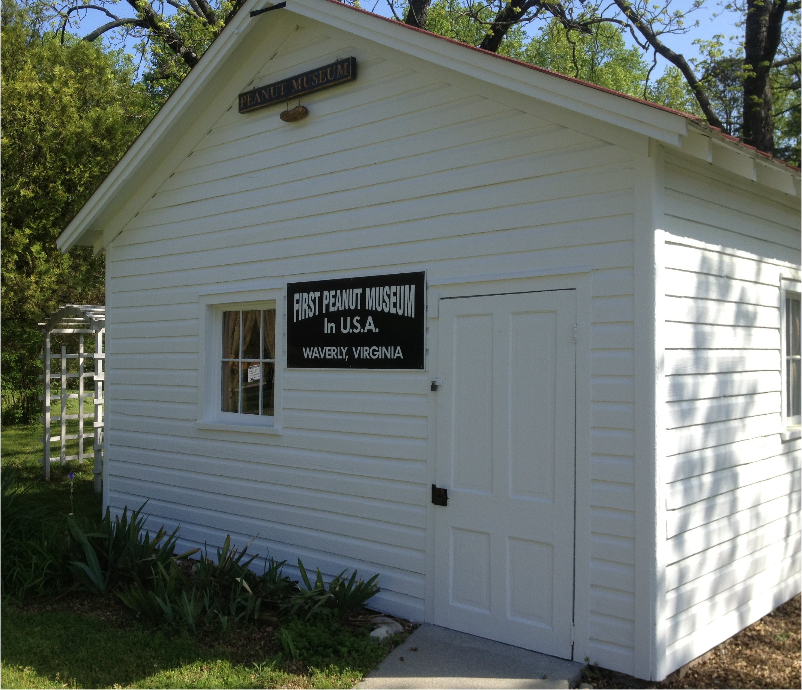 First Peanut Museum is located in Waverly, Virginia